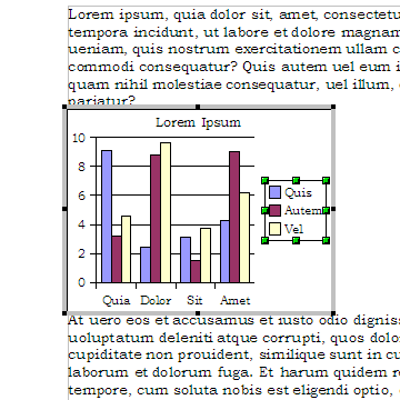 An chart embedded as an OLE-object in an textdocument.